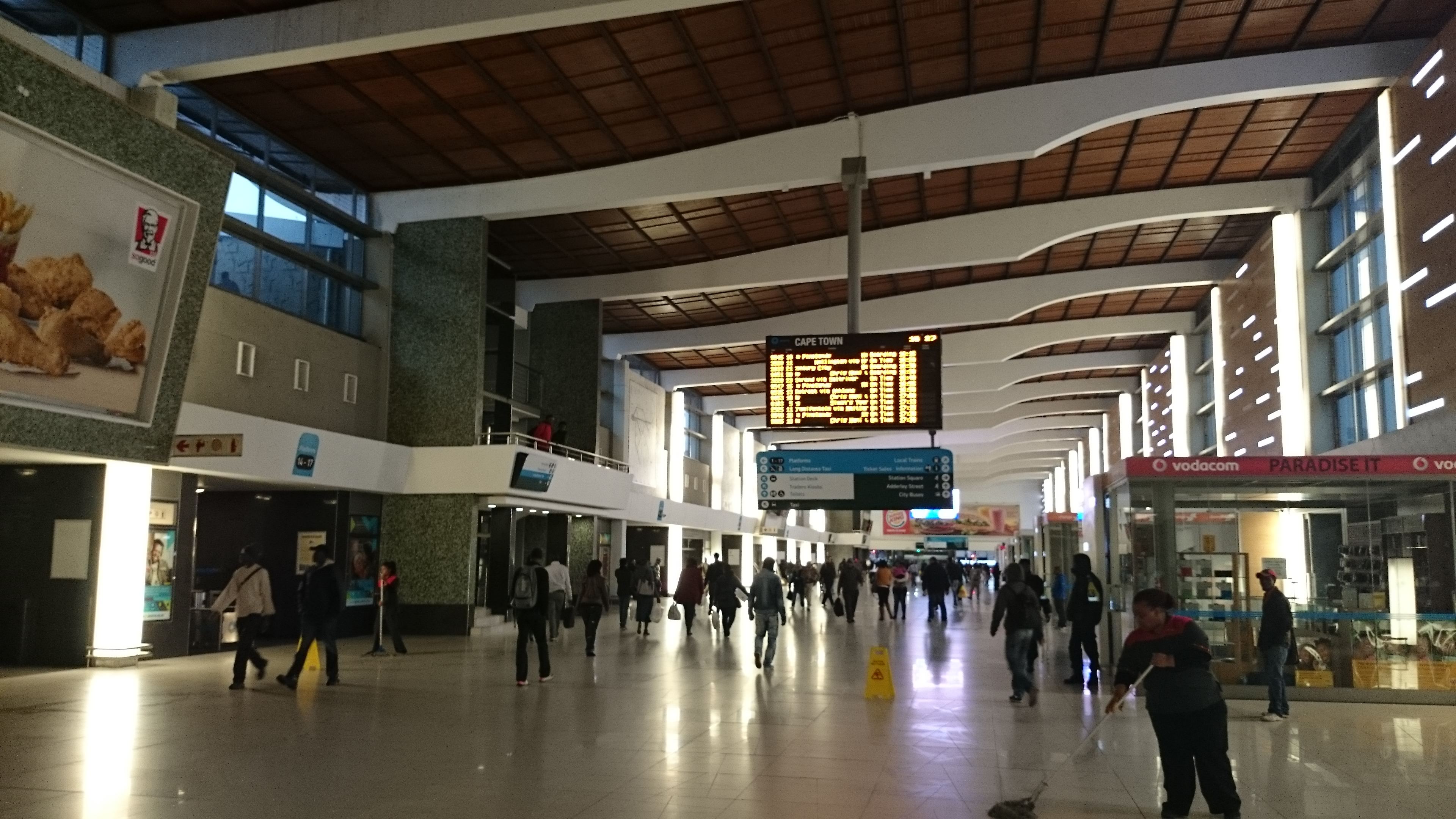 Cape Town Metro Rail station.